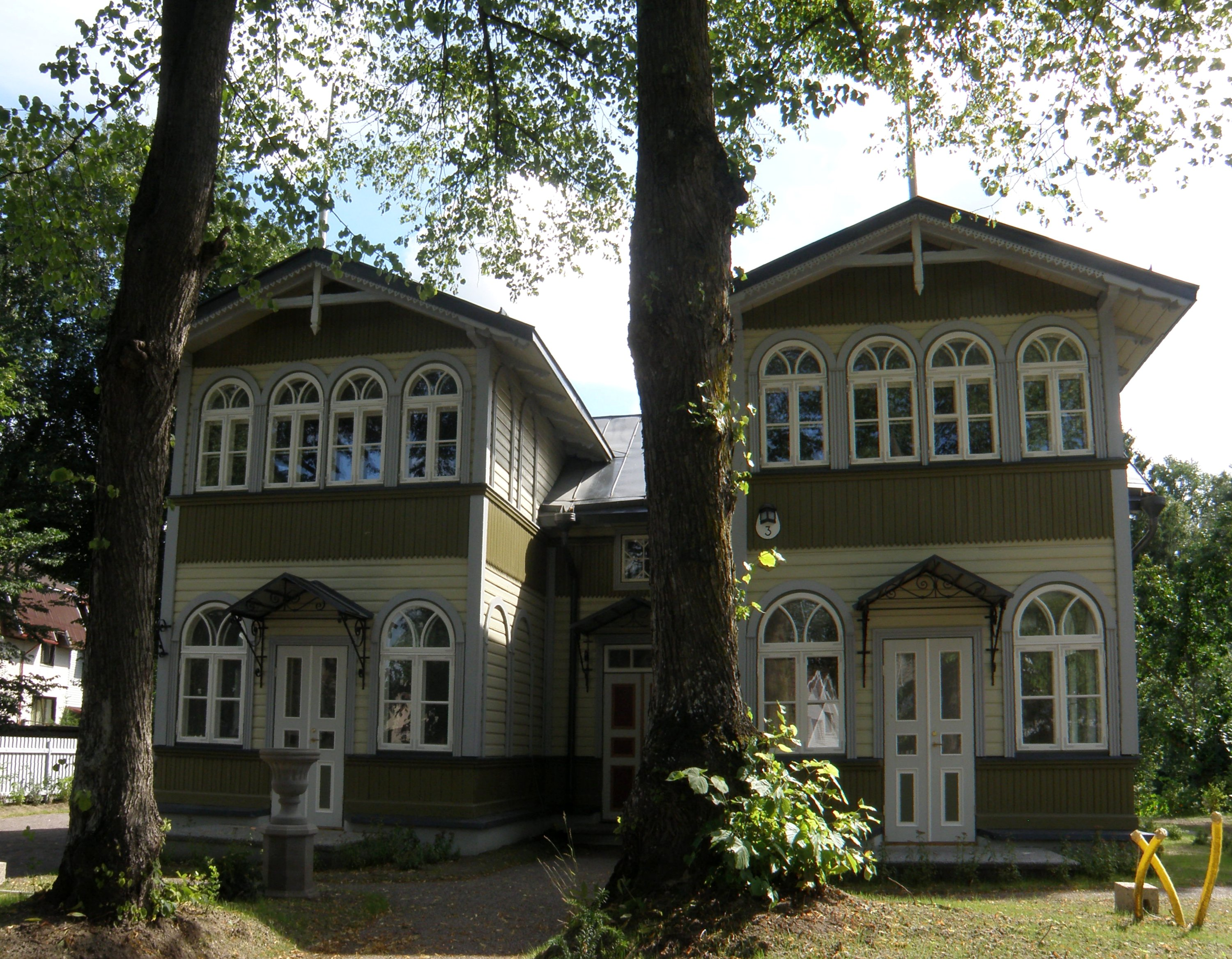 Valdeku 3